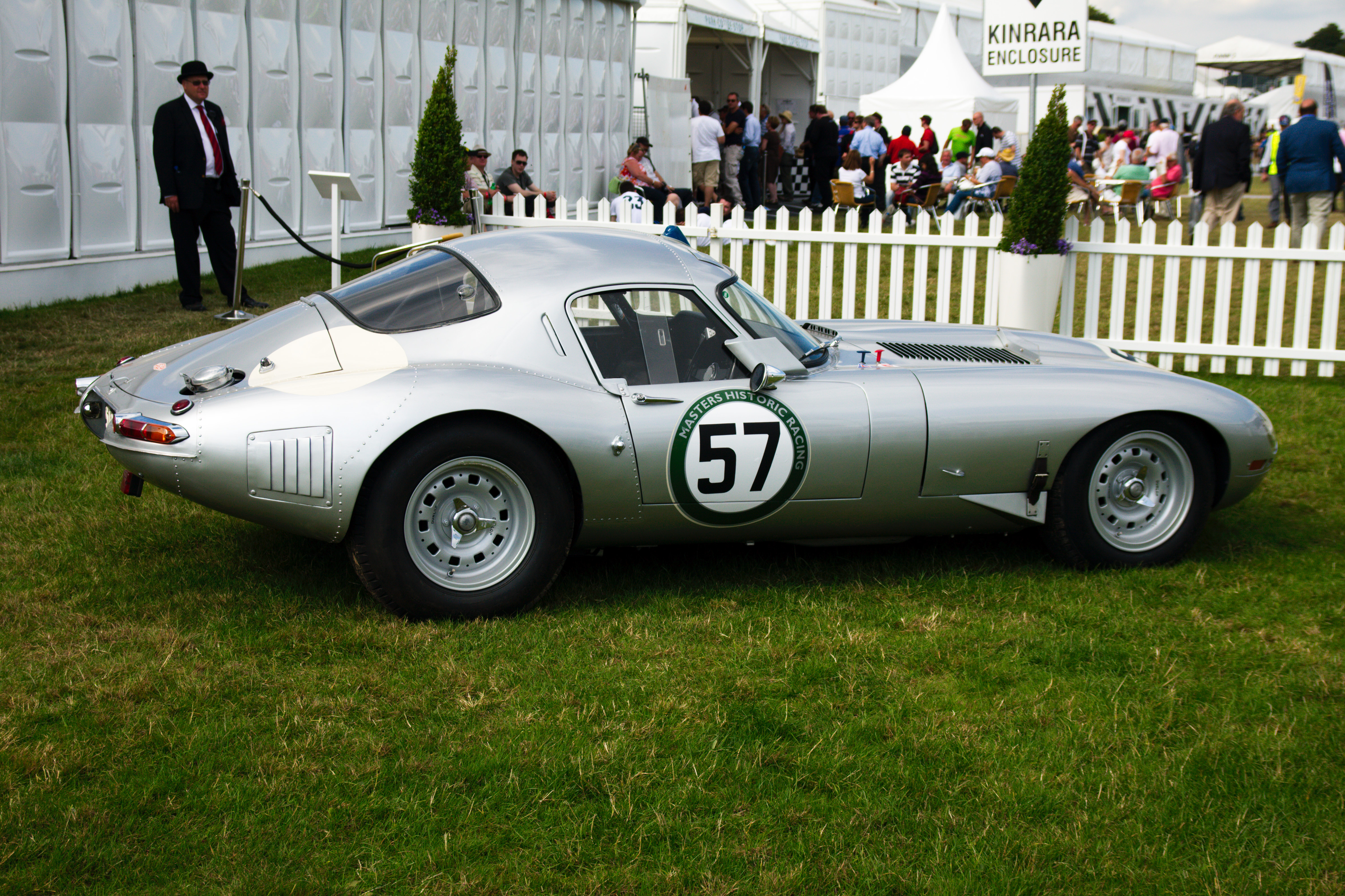 Jaguar E-type lightweight